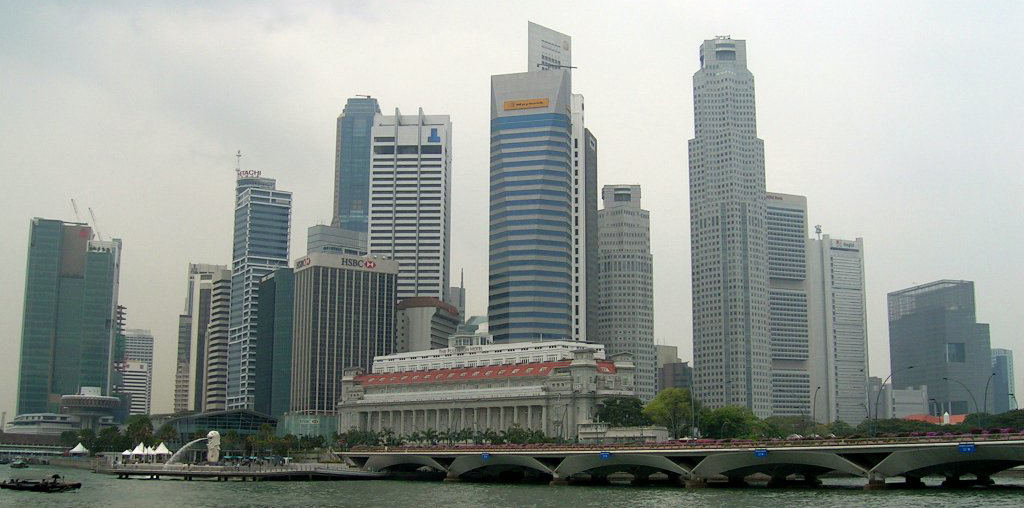 Skyscrapers in Singapore